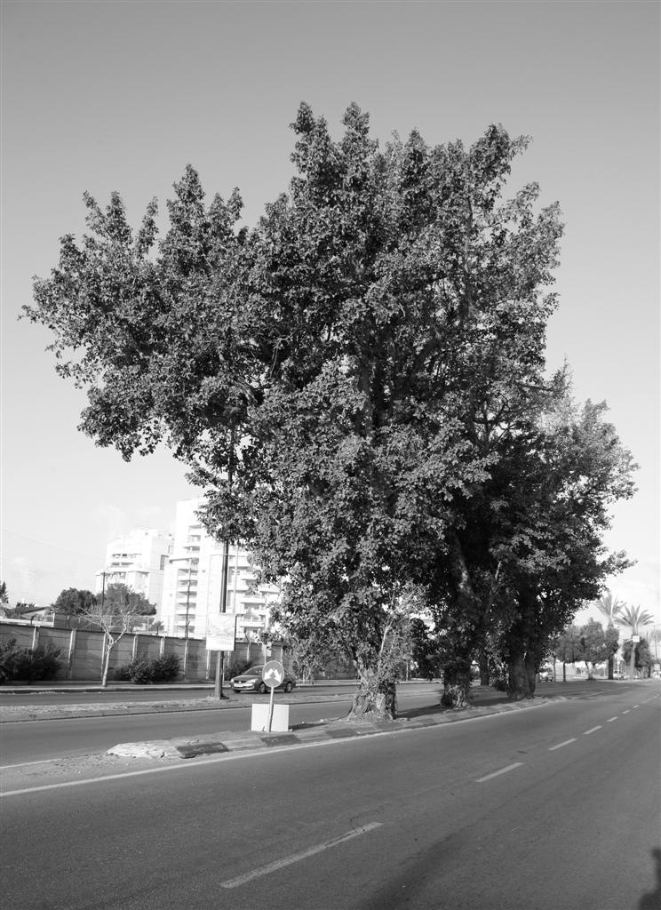 3 Sycamores planted in the middle of Kibutz Galuyot Rd., in the south of Shapira neighborhood